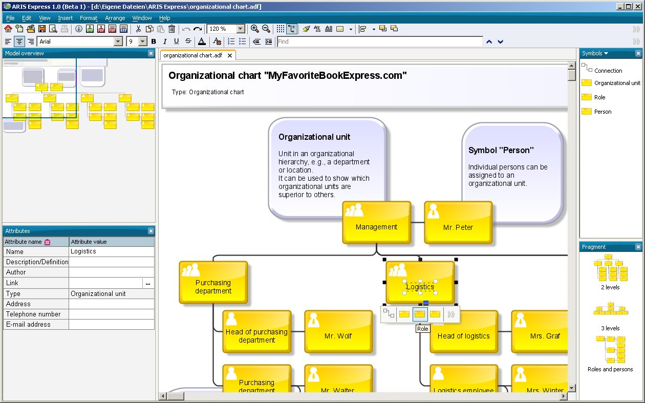 Screenshot of ARIS Express showing the modelling part (here an organisational chart) (English user interface version)